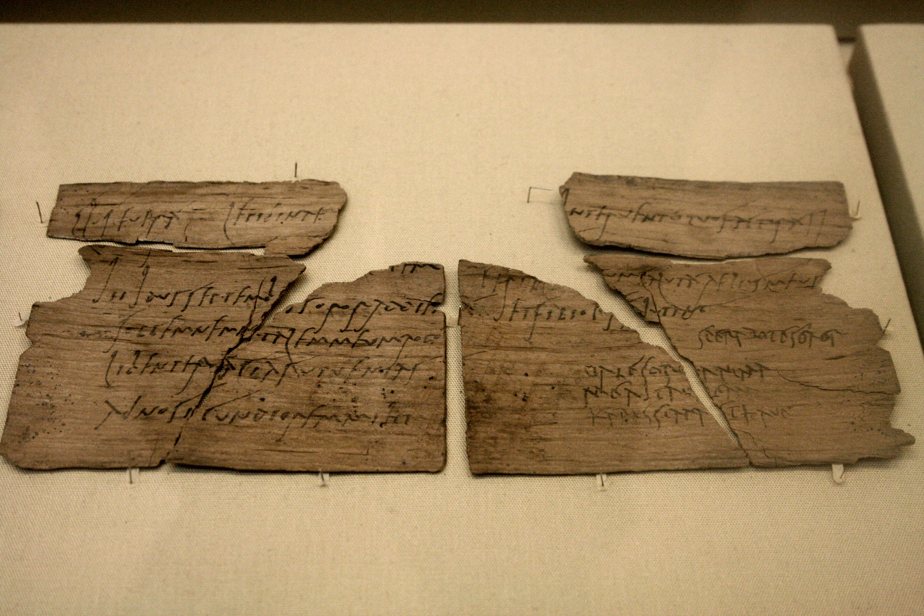 Roman writing tablet from the Vindolanda Roman fort of Hadrian's Wall, in Northumberland (1st-2nd century AD). Tablet 291: Letter inviting Sulpicia Lepidina, the commander's wife, to a birthday party, about AD 97-103. British Museum (London)